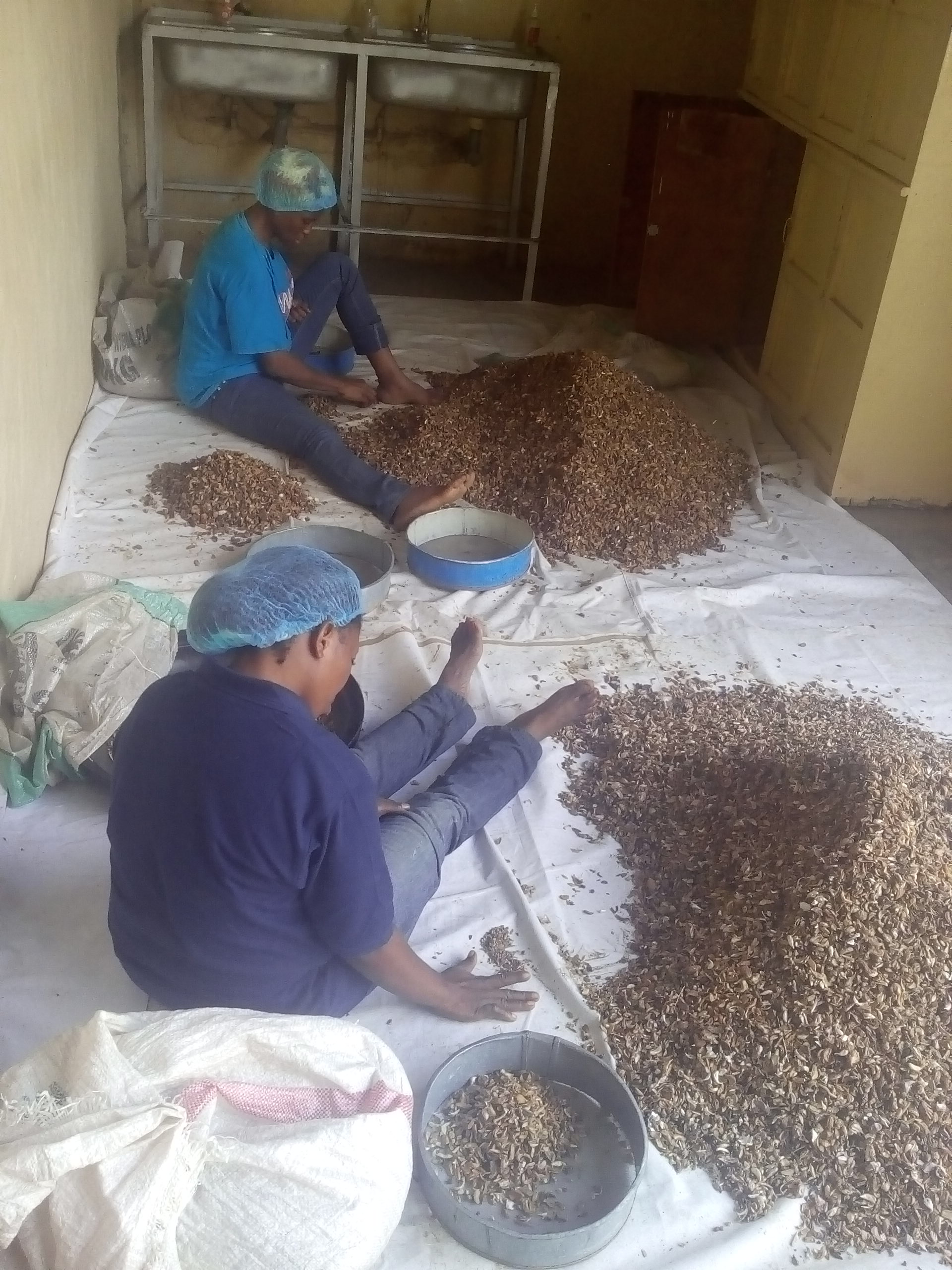 Women sorting dried garlic pods to be ground into garlic powder which is used as spice in Africa This is an image of "African people at work" from Nigeria